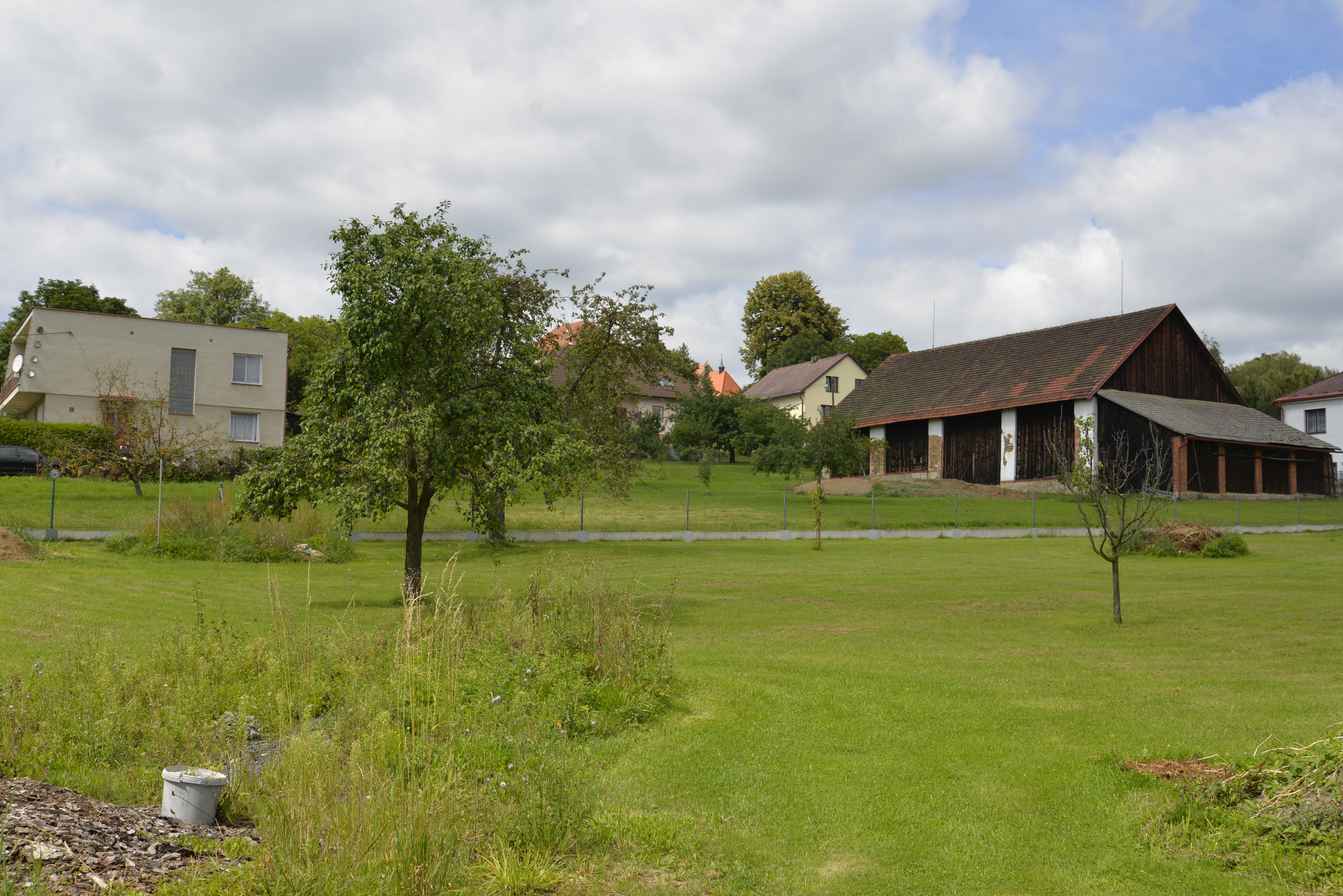 Štěpánovice is village, part of district capital Klatovy